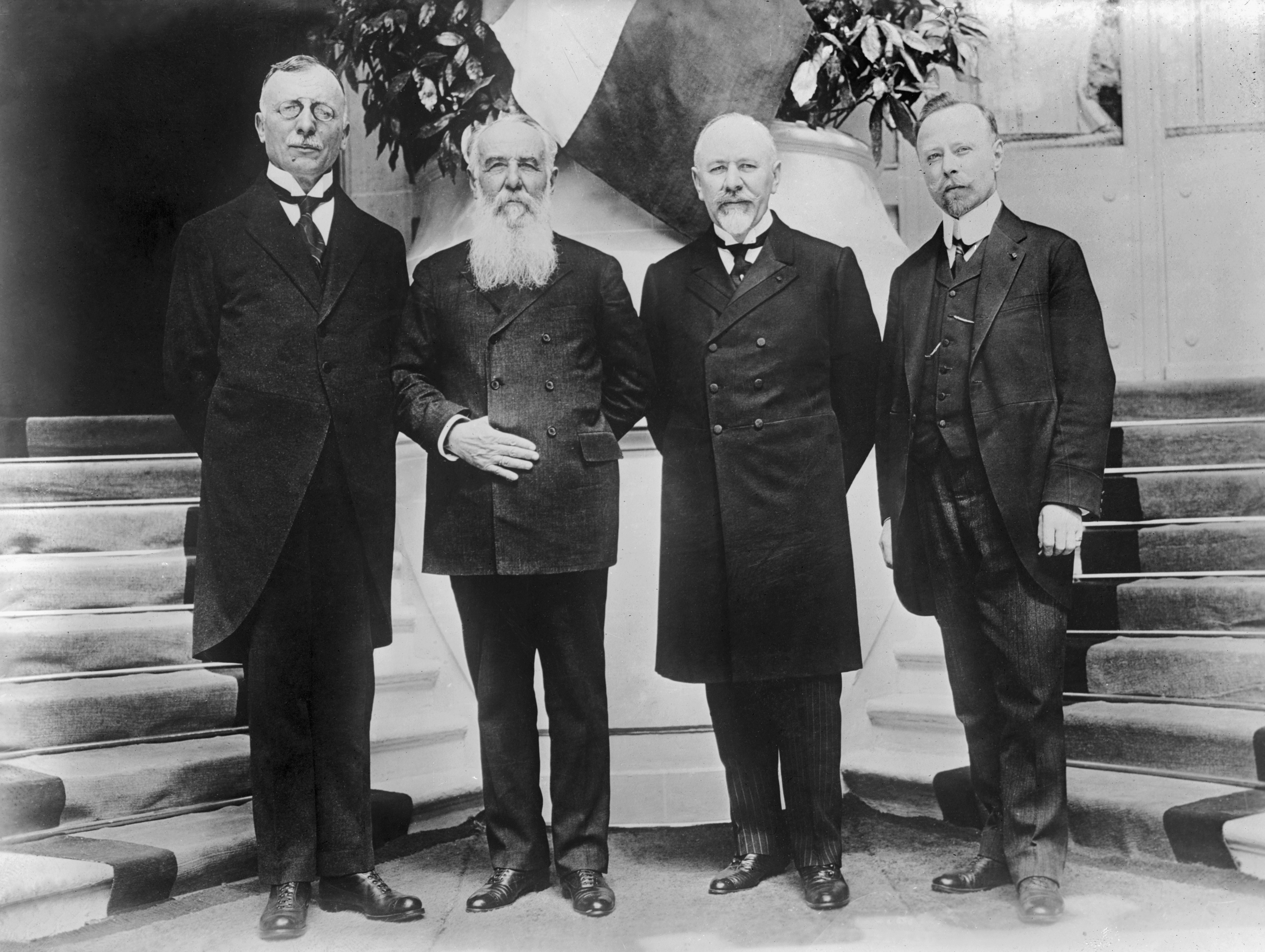 Dr. A. Trumbich - N.O. Patchich - M.R. Vesnich - Dr. P. Zolger (names spelled as written on original photo)